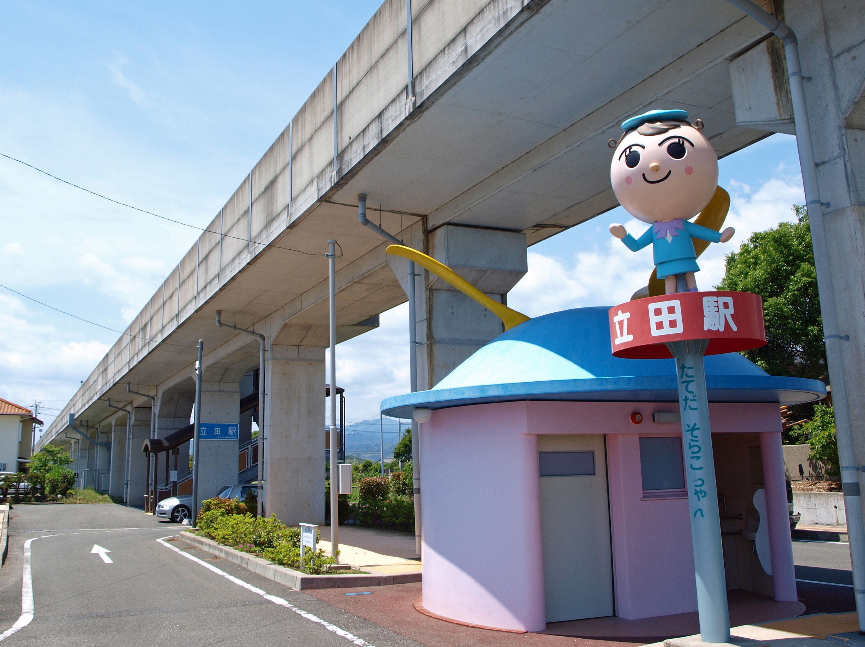 Tateda Station, Gomen-Nahari Line（Asa Line), Tosa Kuroshio Railway, Japan